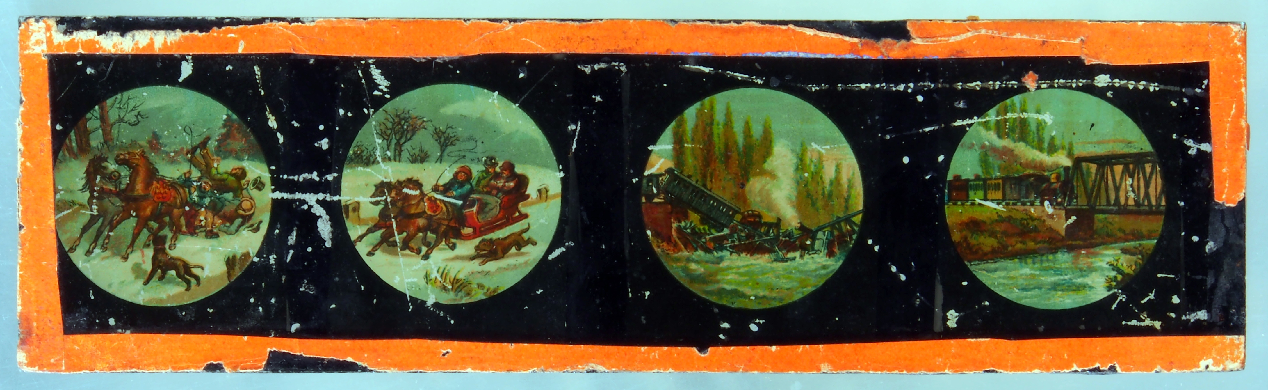 Train and sled accident magic lantern images.